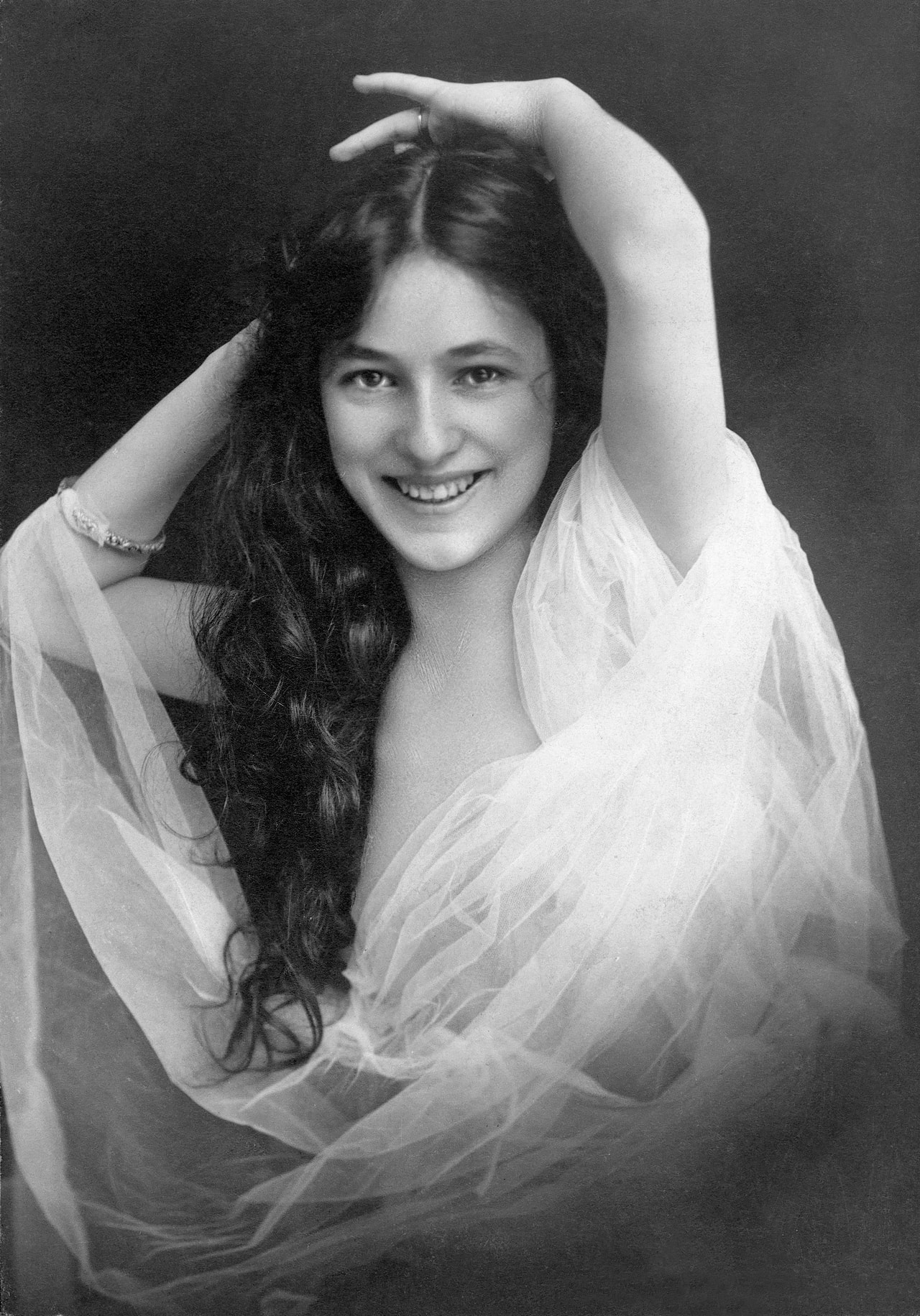 Evelyn Nesbit (December 25, 1884 – January 17, 1967) was the professional name of Florence Evelyn Nesbit, a popular American chorus girl and artists’ model whose liaison with renowned architect Stanford White immortalized her as "The Girl in the Red Velvet Swing."